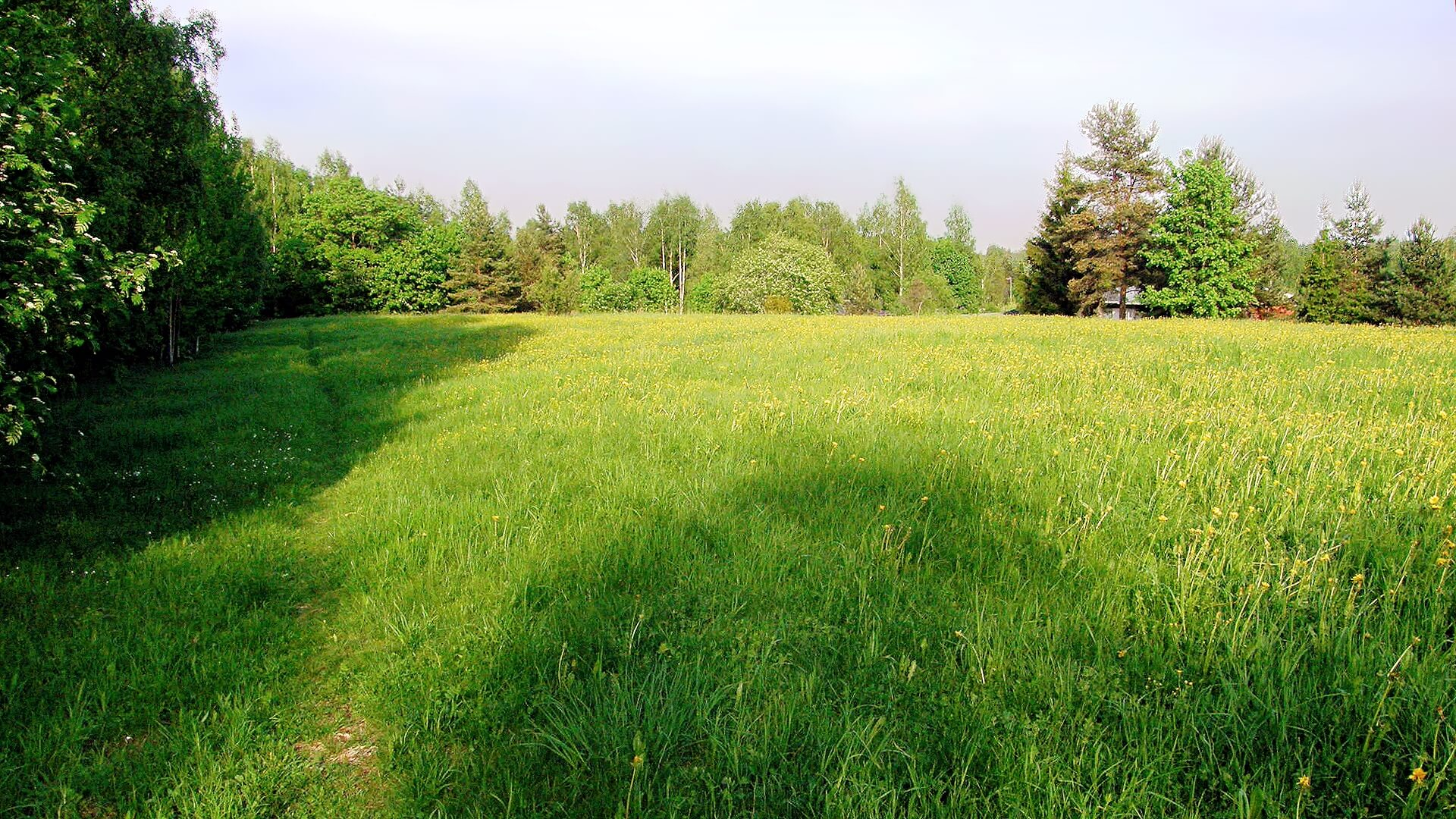 Hovinpelto meadow in Lappeenranta, Finland. Regionally valuable traditional rural biotope.